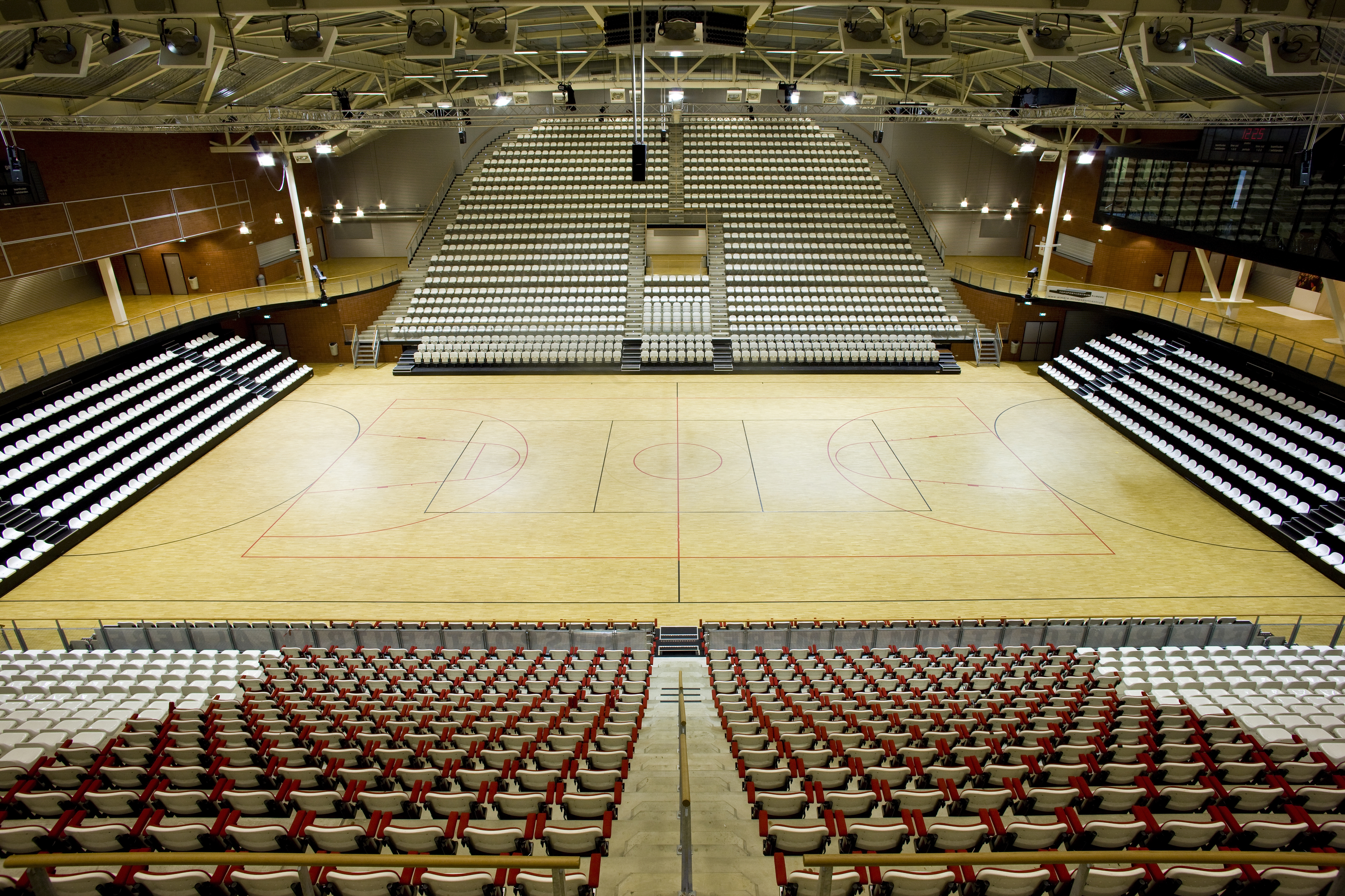 Zicht Topsporthal vanuit Vak B.